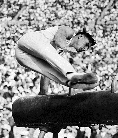 The French Gymnast Rousseau On The Pommel Horse During The Olympic Games In Berlin, On August 10, 1936.